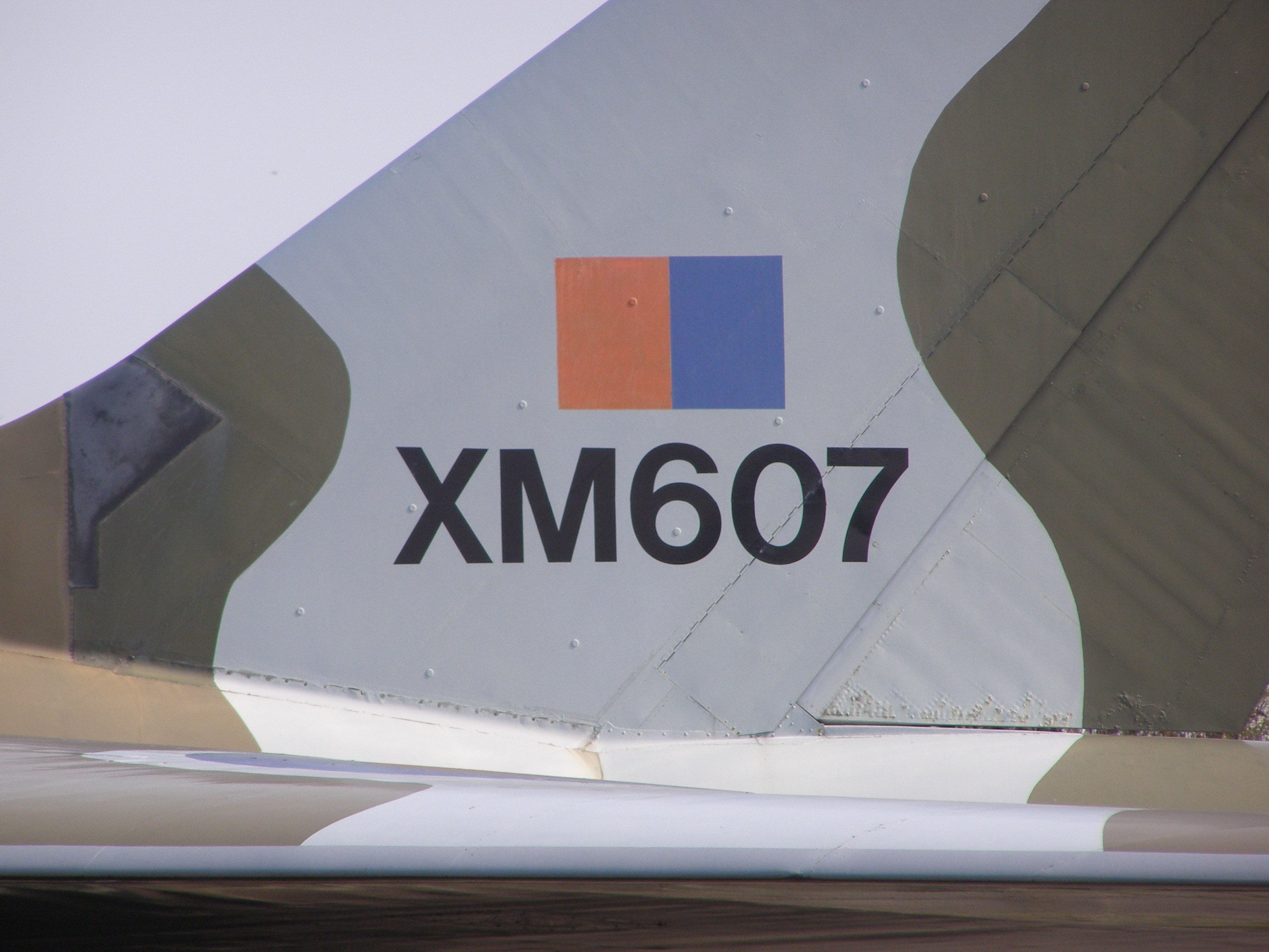 Avro Vulcan at RAF Waddington (showing serial XM607)